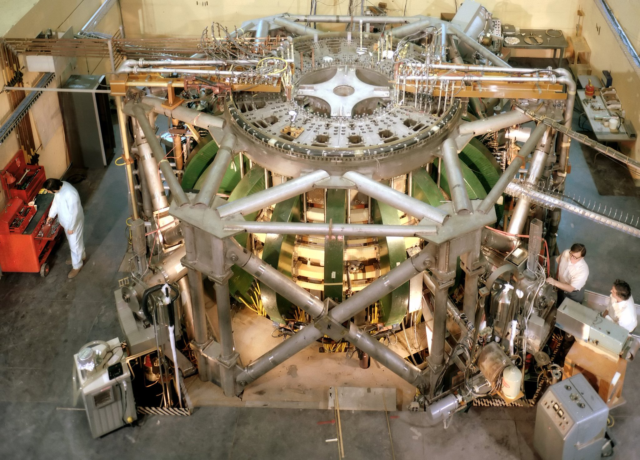 Overhead view of the Princeton Large Torus in 1975. The PLT was an extremely successful tokamak fusion device that set numerous records and demonstrated that the temperatures needed for fusion were possible.